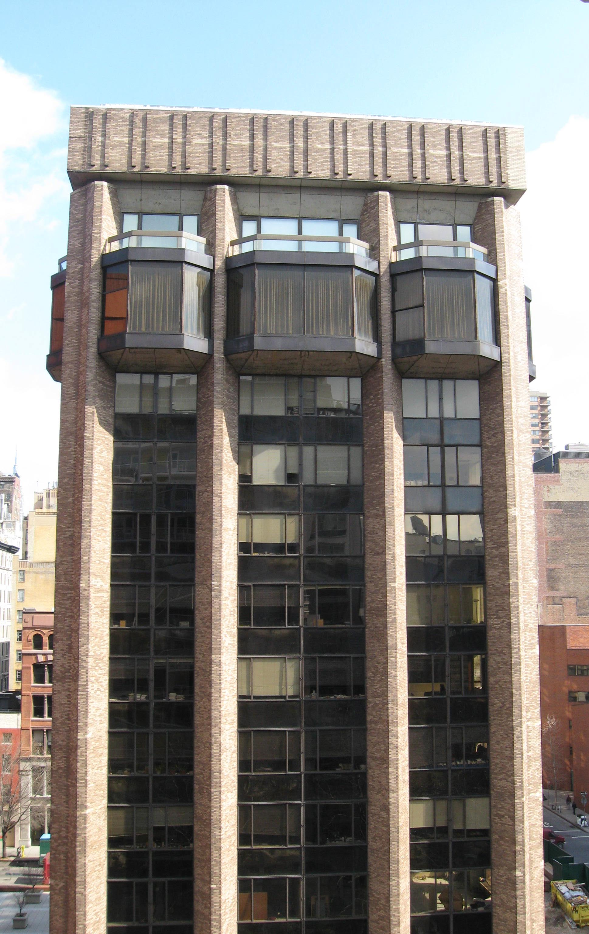 Looking north across Third Street at upper floors of Warren Weaver Hall, home of Courant Institute of Mathematical Sciences at NYU, on a partly sunny late morning in late winter